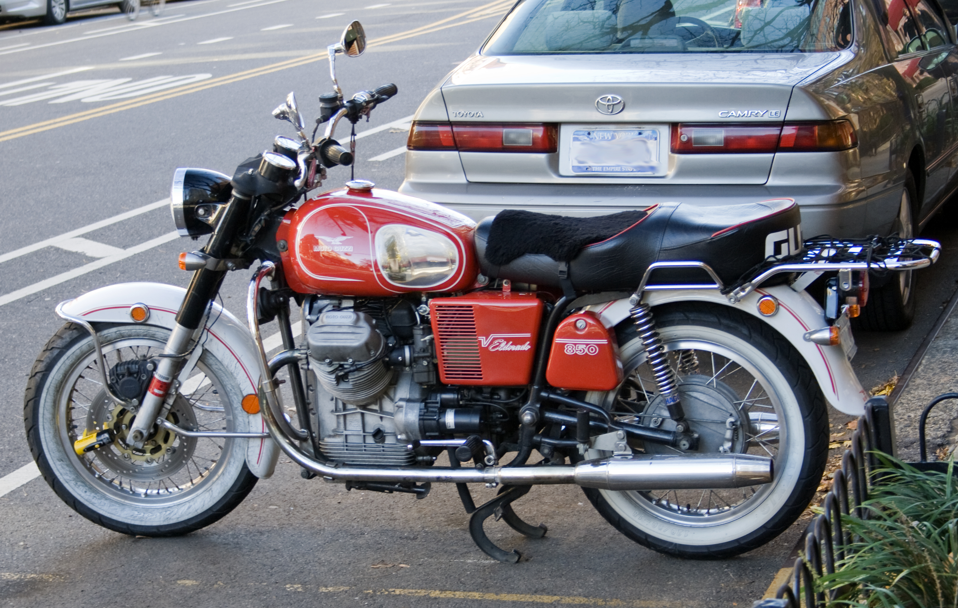 Seventies' Moto Guzzi Eldorado 850.